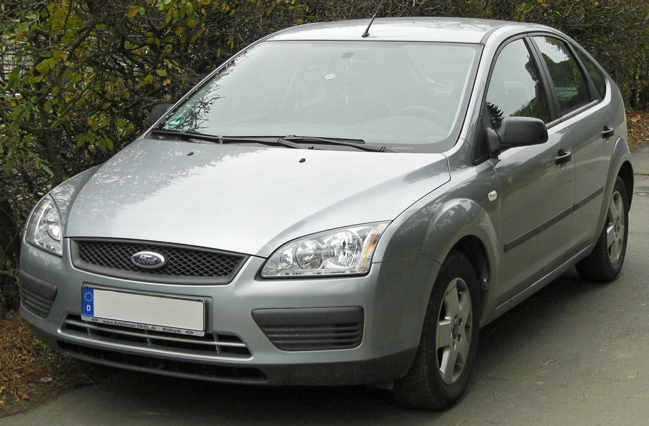 Description: Ford Focus II Source: Matthias Other Version(s)